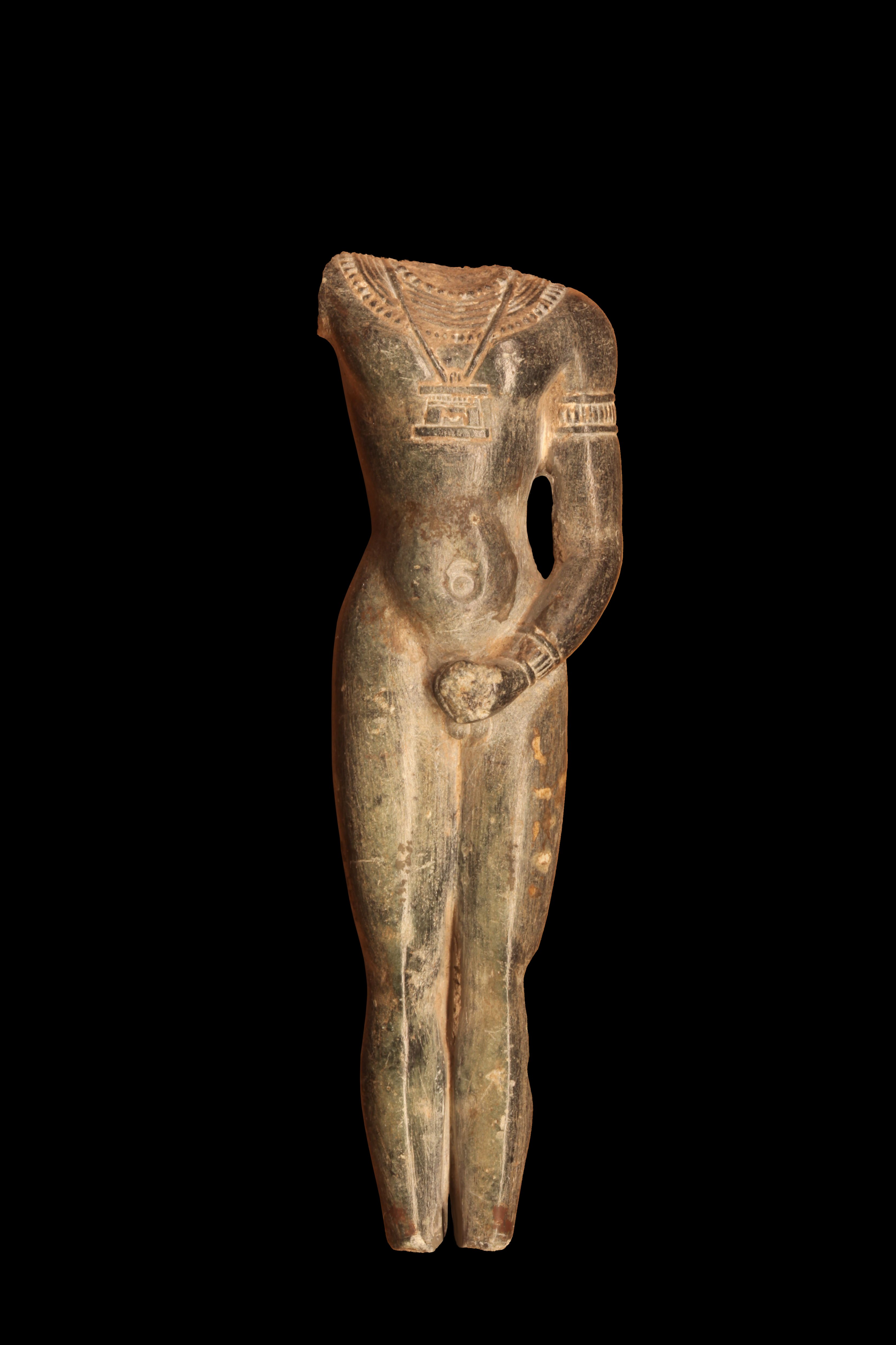 Min-Amon. Coptos